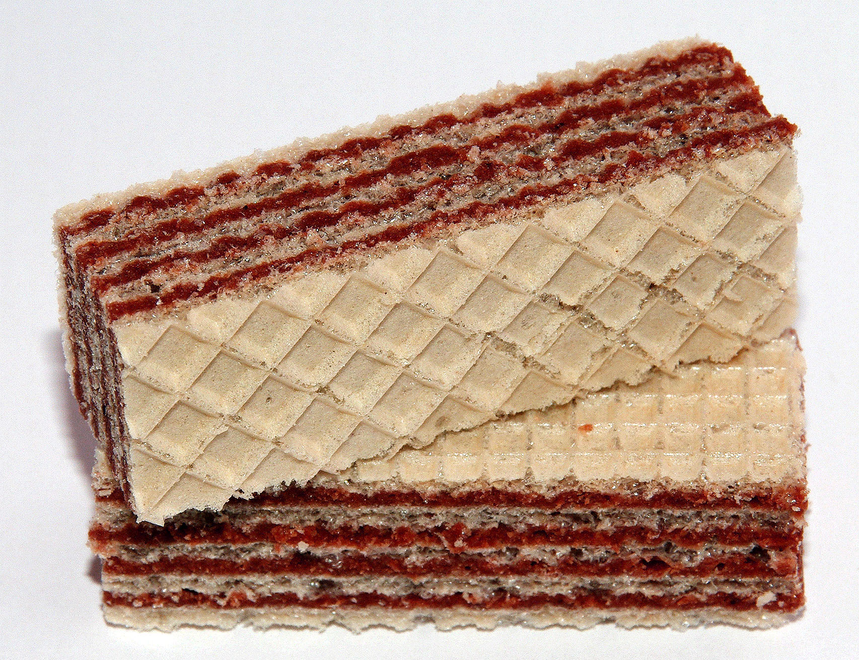 Waffle